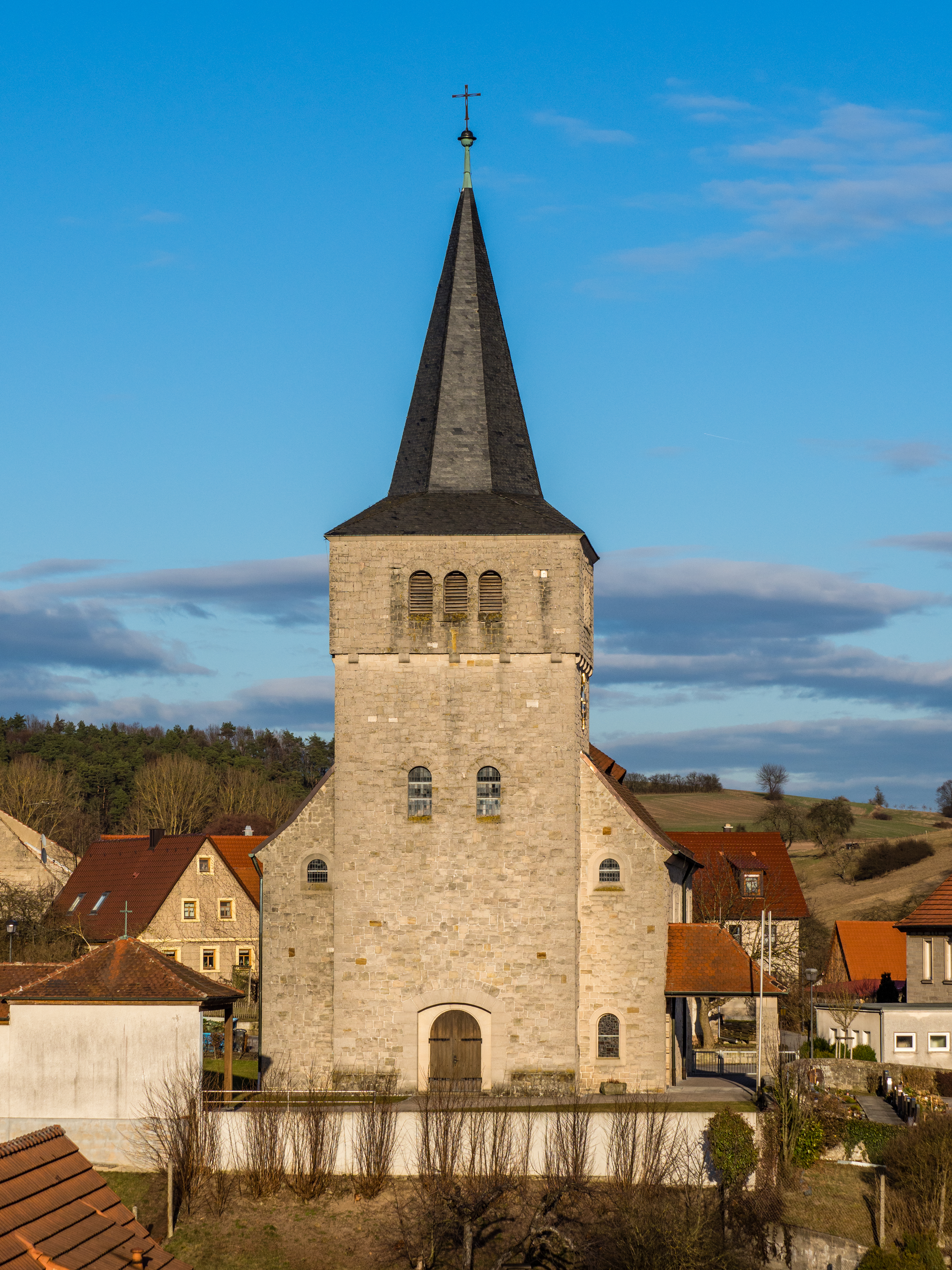 Church of St. Matthew in Breitbrunn